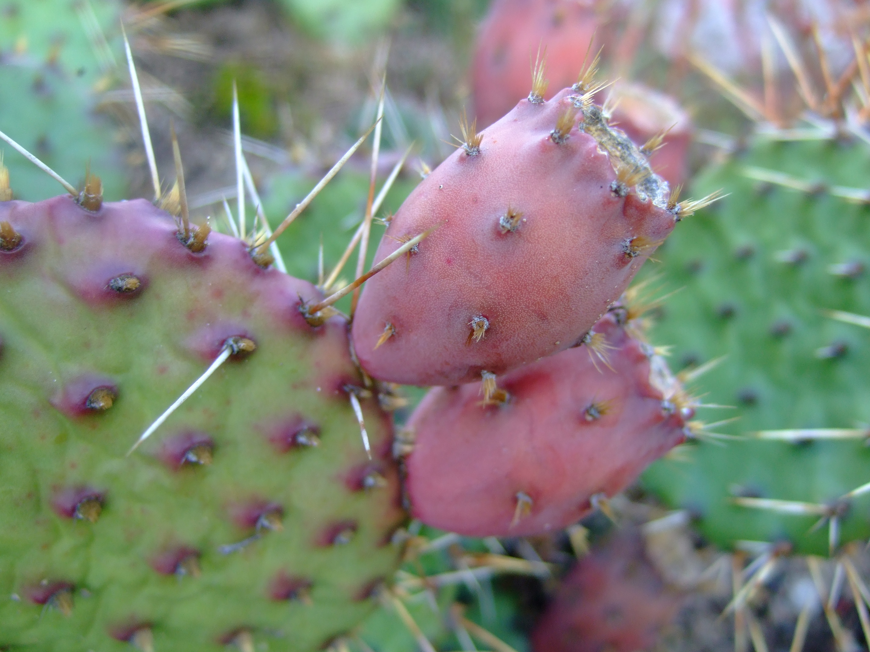 Opuntia howeyi (Fruits)